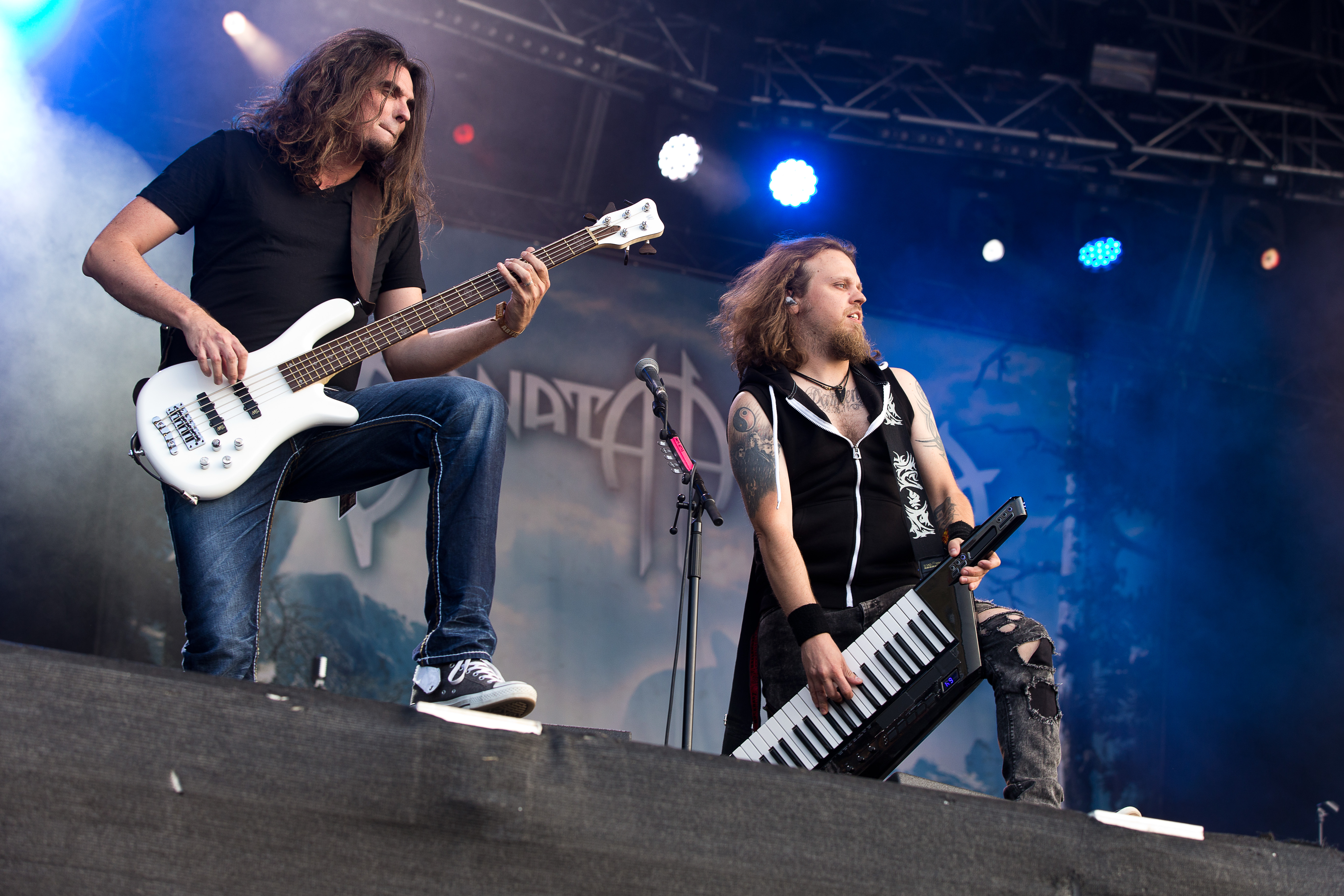 The Finnish power metal band Sonata Arctica at the Rockharz Open Air 2016 in Ballenstedt/Germany.